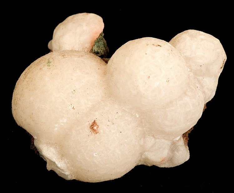 Thomsonite Locality: Aurangabad District, Maharashtra, India (Locality at ) Size: 7.3 x 6.6 x 2.7 cm. When these first came out, nobody knew they were thomsonites, a rare zeolite that had never been seen in this size and richness. It was actually still during the show where they were introduced that word got around what they were, and they were quickly bought up by dealers. Here are 6 intergrown globes of the form that was typical for this isolated find in the Aurangabad forest of India.